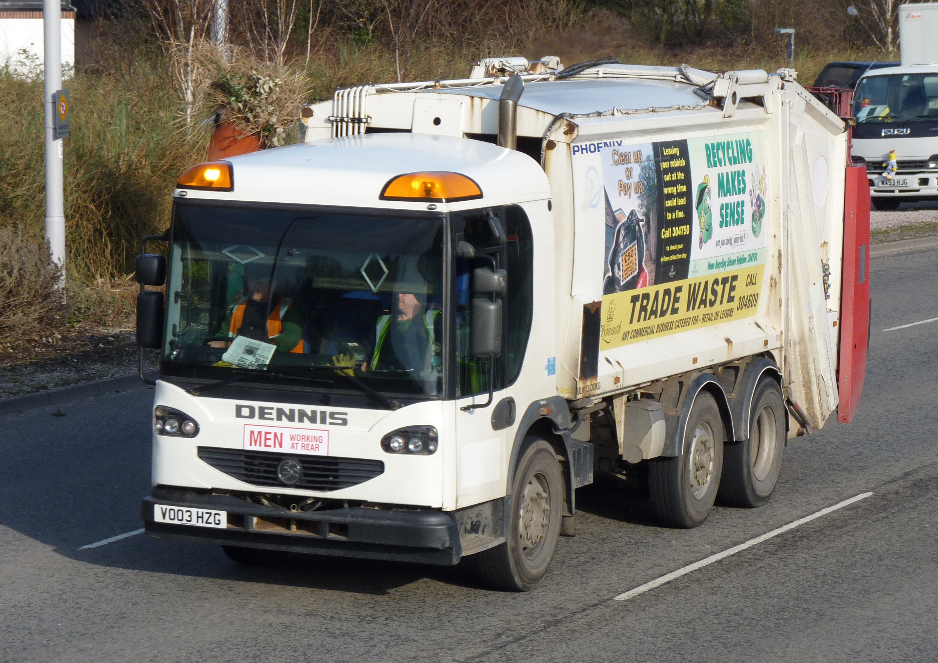 08 February 2010 Marsh Mills Plymouth